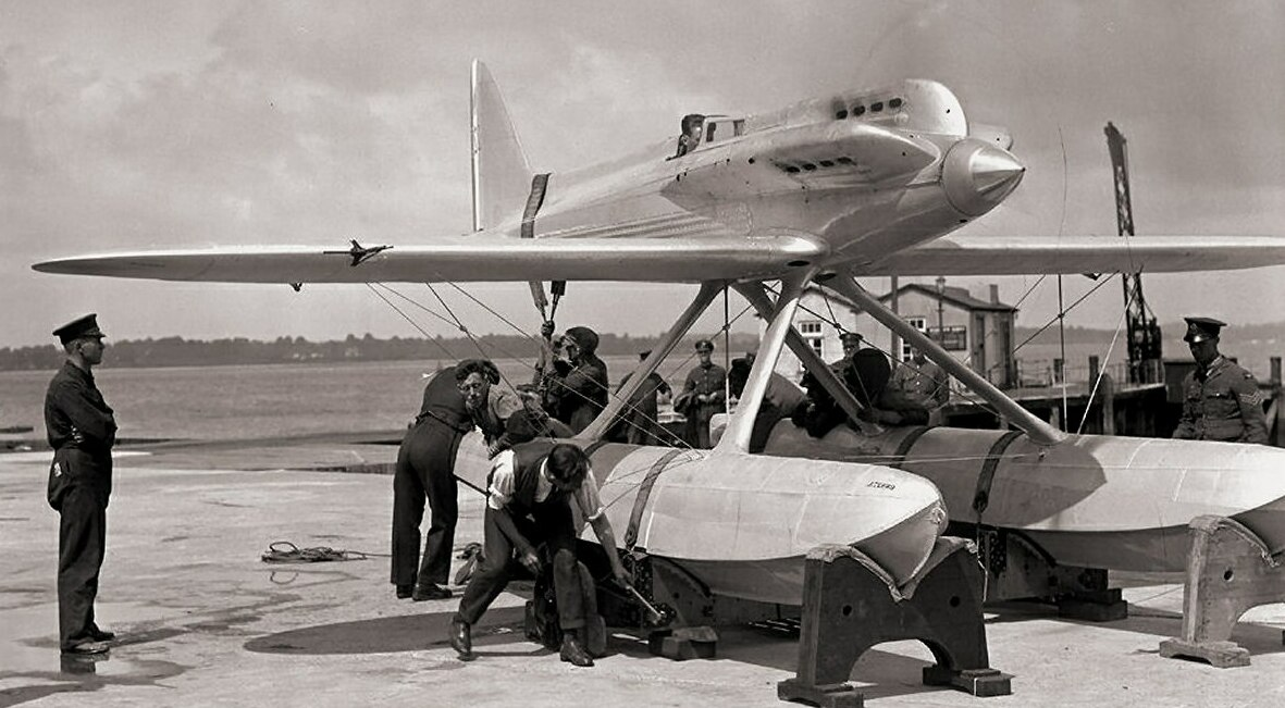 The Supermarine S.5 Winner of the Schneider Trophy at Venice in 1927 with 453,25 km/h